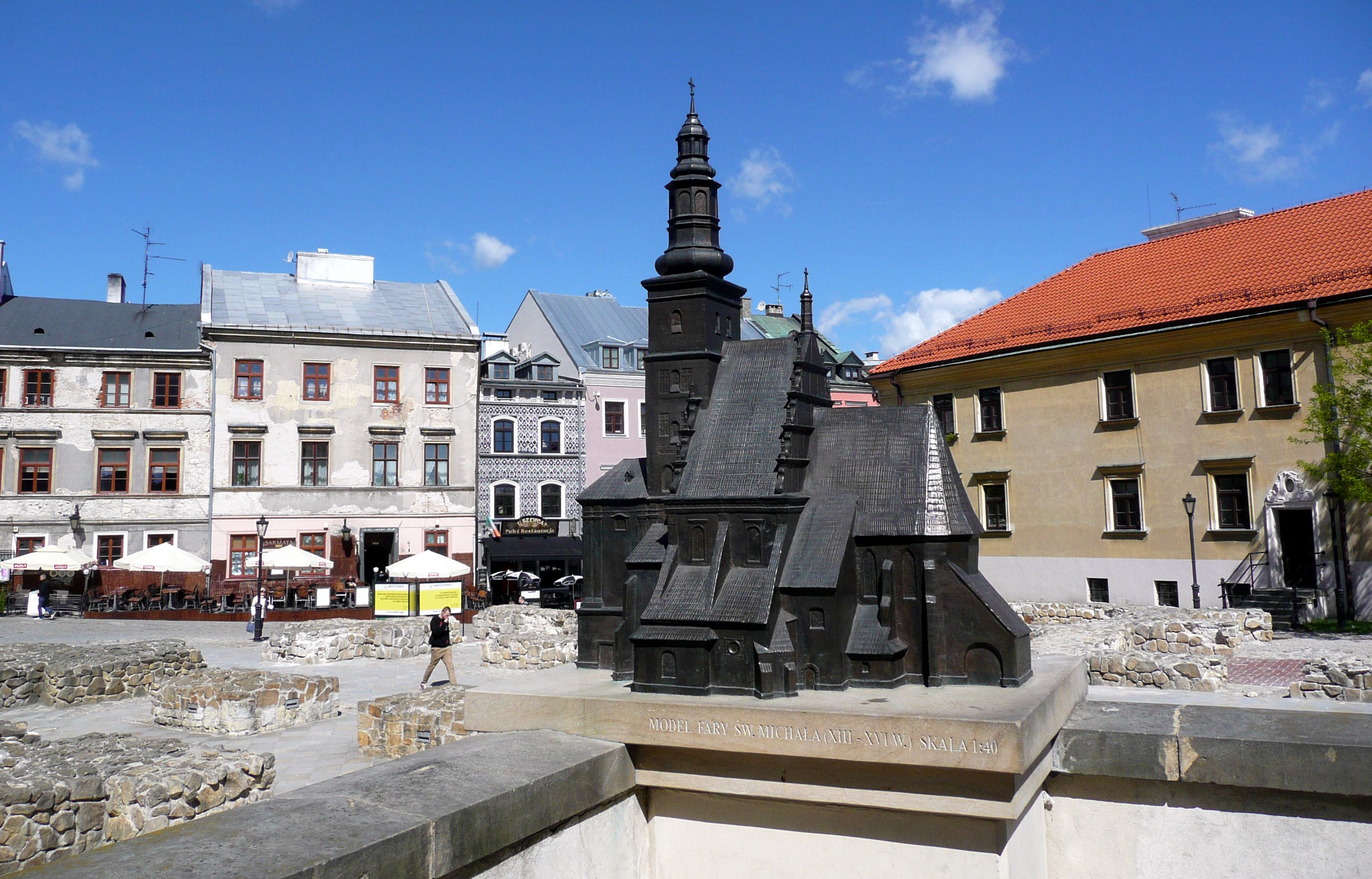 A scale model of St. Michael's church in Lublin